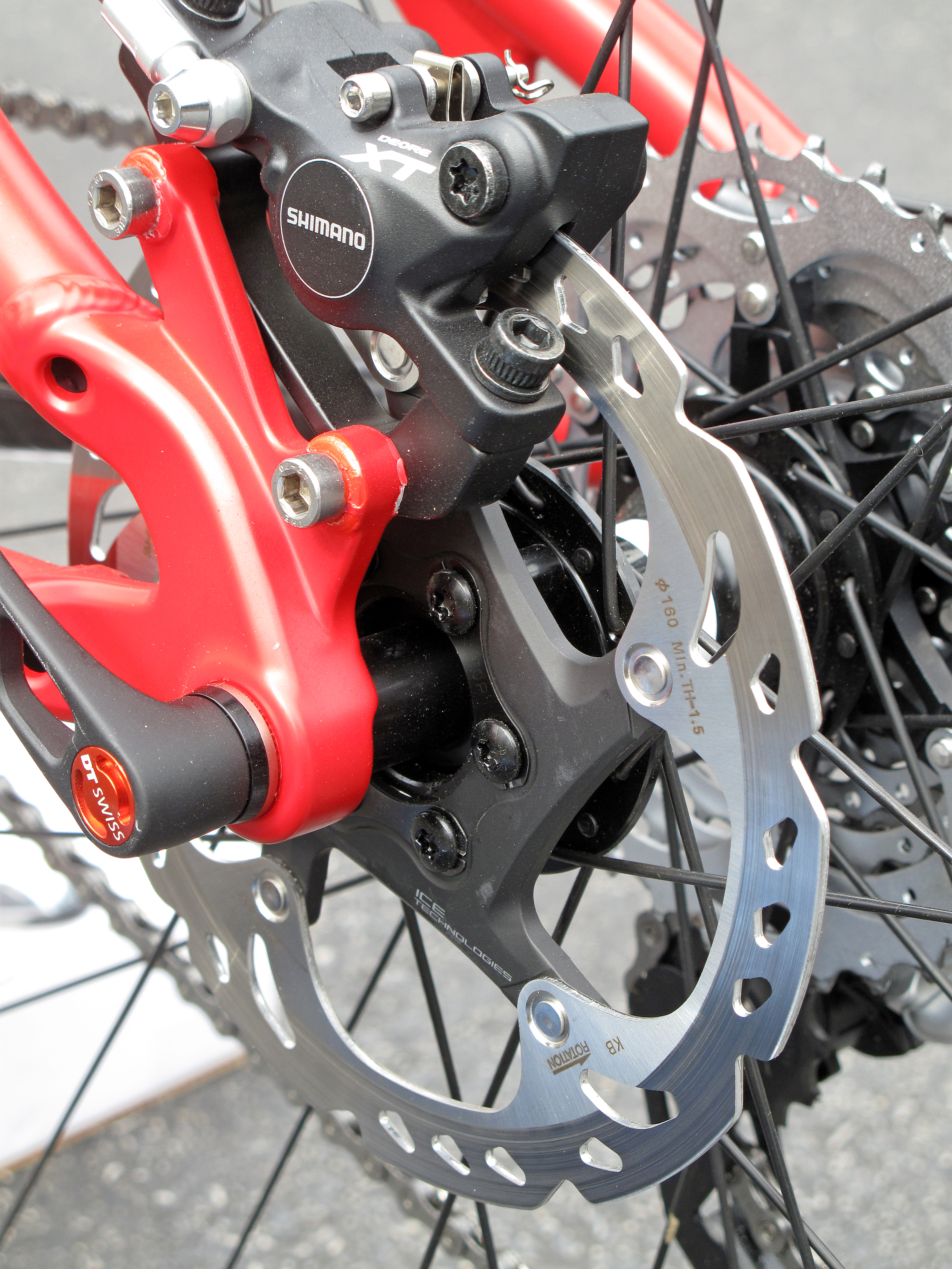 Rear hub and disc brake caliper and 160mm rotor of a 2013 Santa Cruz Tallboy mountain bike.